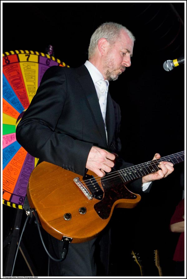 Tony James in front of the Carbon Casino 'Wheel of Fortune' which was painted by artist Ilyana.